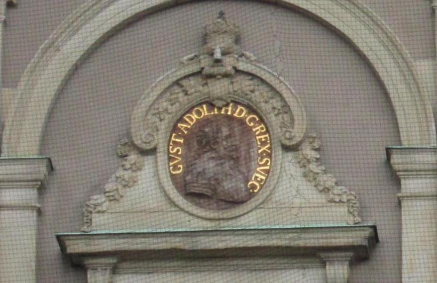 King Gustav II Adolph of Sweden, as released by image creator Ristesson HistoryPlace: Stockholm Palace, Sweden